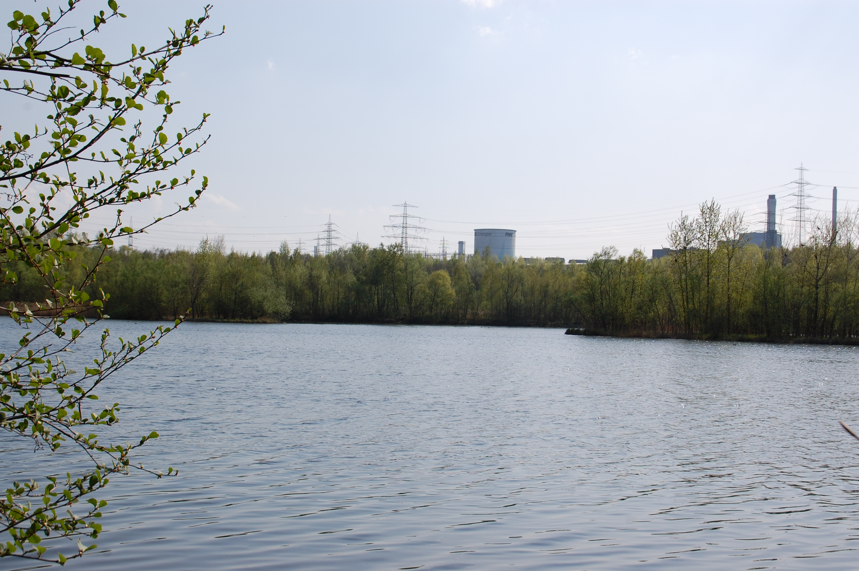 Hürther Waldsee in Hürth, Germany